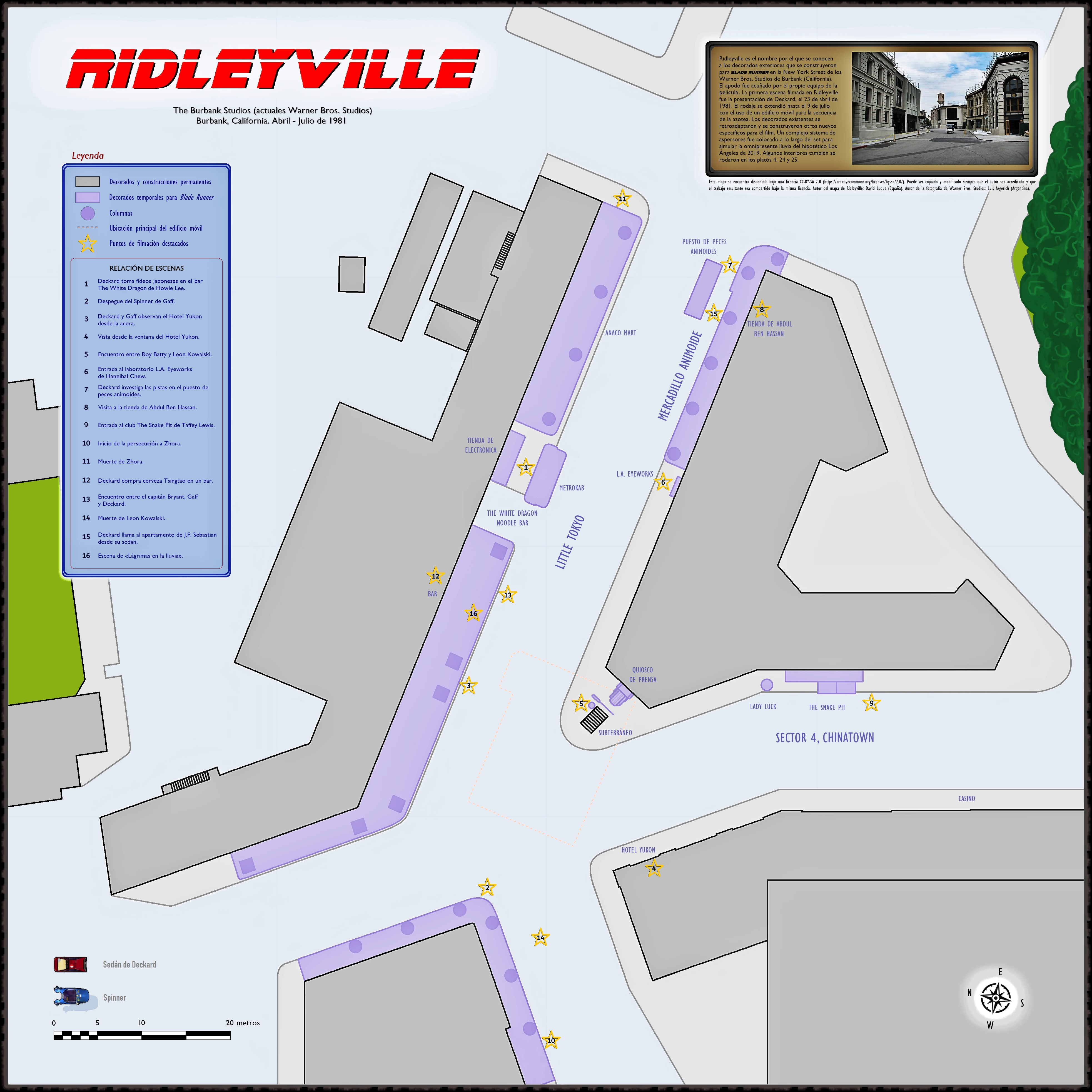 An unofficial fan made map of Ridleyville, name by which the exterior sets that were built for Blade Runner (Ridley Scott, 1982) in Warner Bros. Studios (Burbank, California) are known. Filming in Ridleyville lasted from April to June 1981.